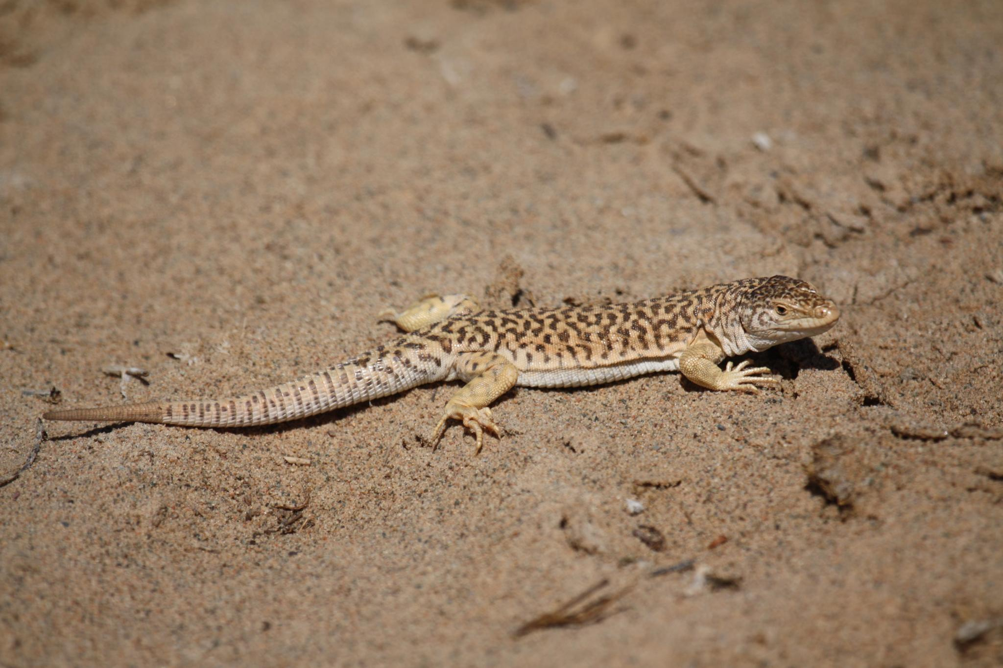 Gobi Racerunner - a medium sized lizard on sand dunes. Taken in southern Mongolia